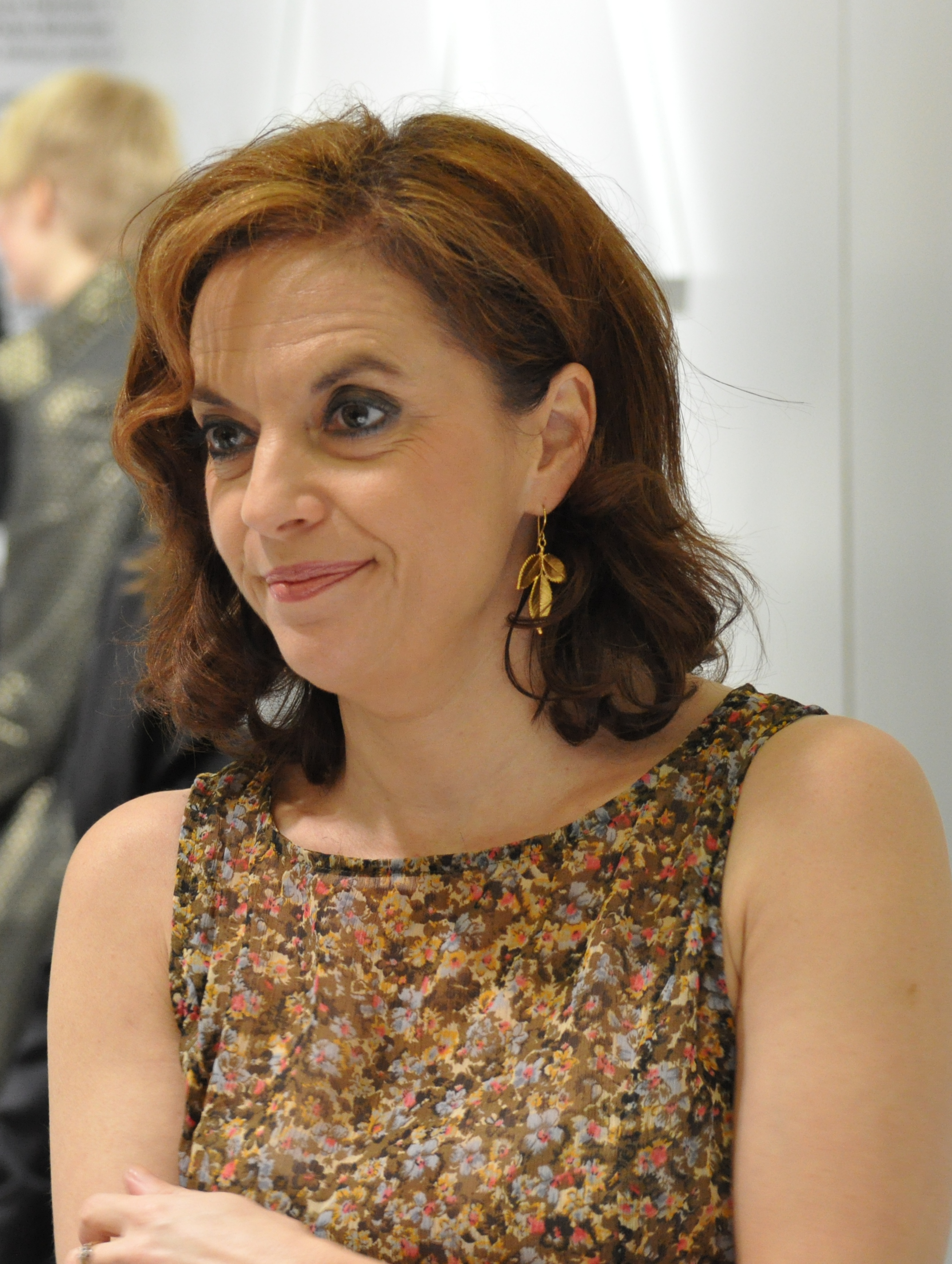 Finnish writer Anna-Leena Härkönen at Turku Book Fair, 2011.